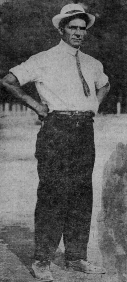 American track and field coach Bill Hayward